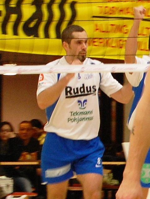 Jani Pykäri finland volleyball player. Nurmon Jymy lentopallo volleyball team.